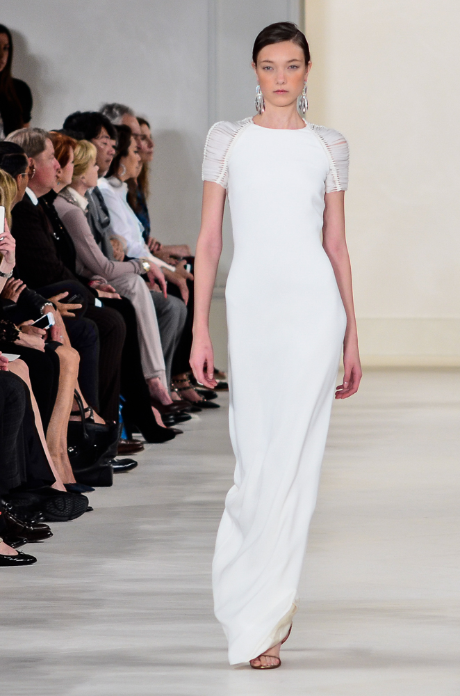 Model Yumi Lambert / Photo by Christopher Macsurak.